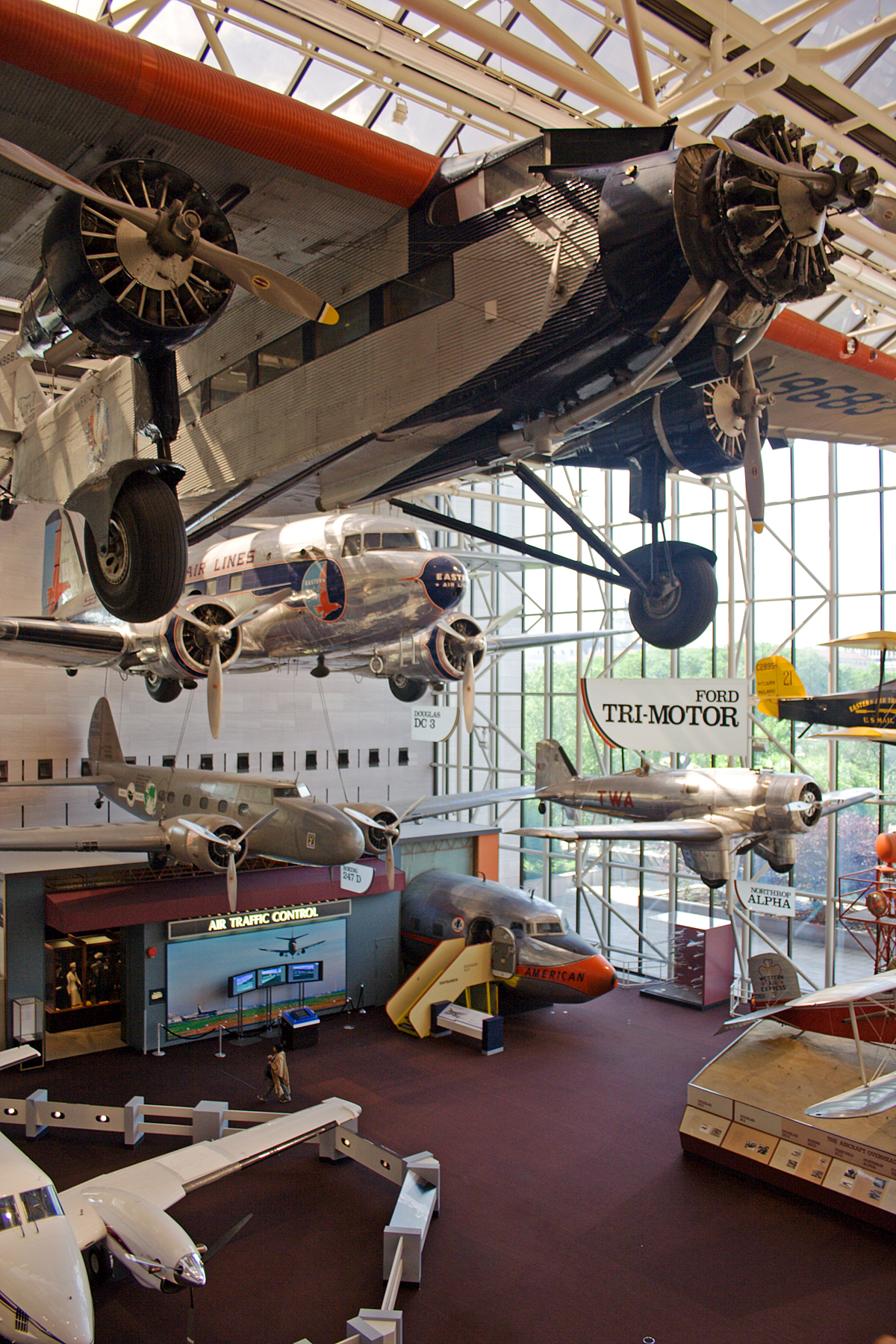 A collection of aircraft at the National Air and Space Museum in Washington, D.C.